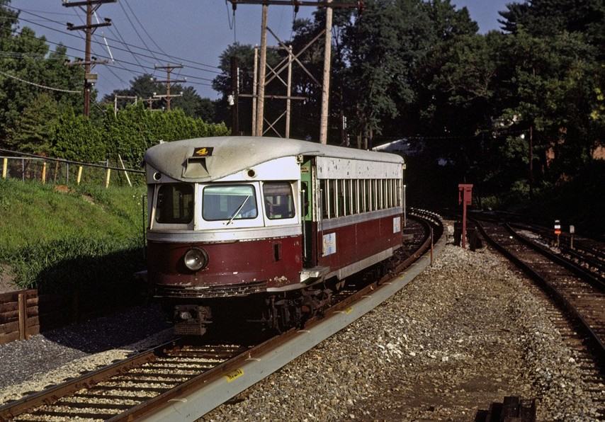 Brill "Bullet" car 4 of the former Philadelphia & Western and later Philadelphia Suburban Transportation Company at Byrn Mawr station, in August 1980.